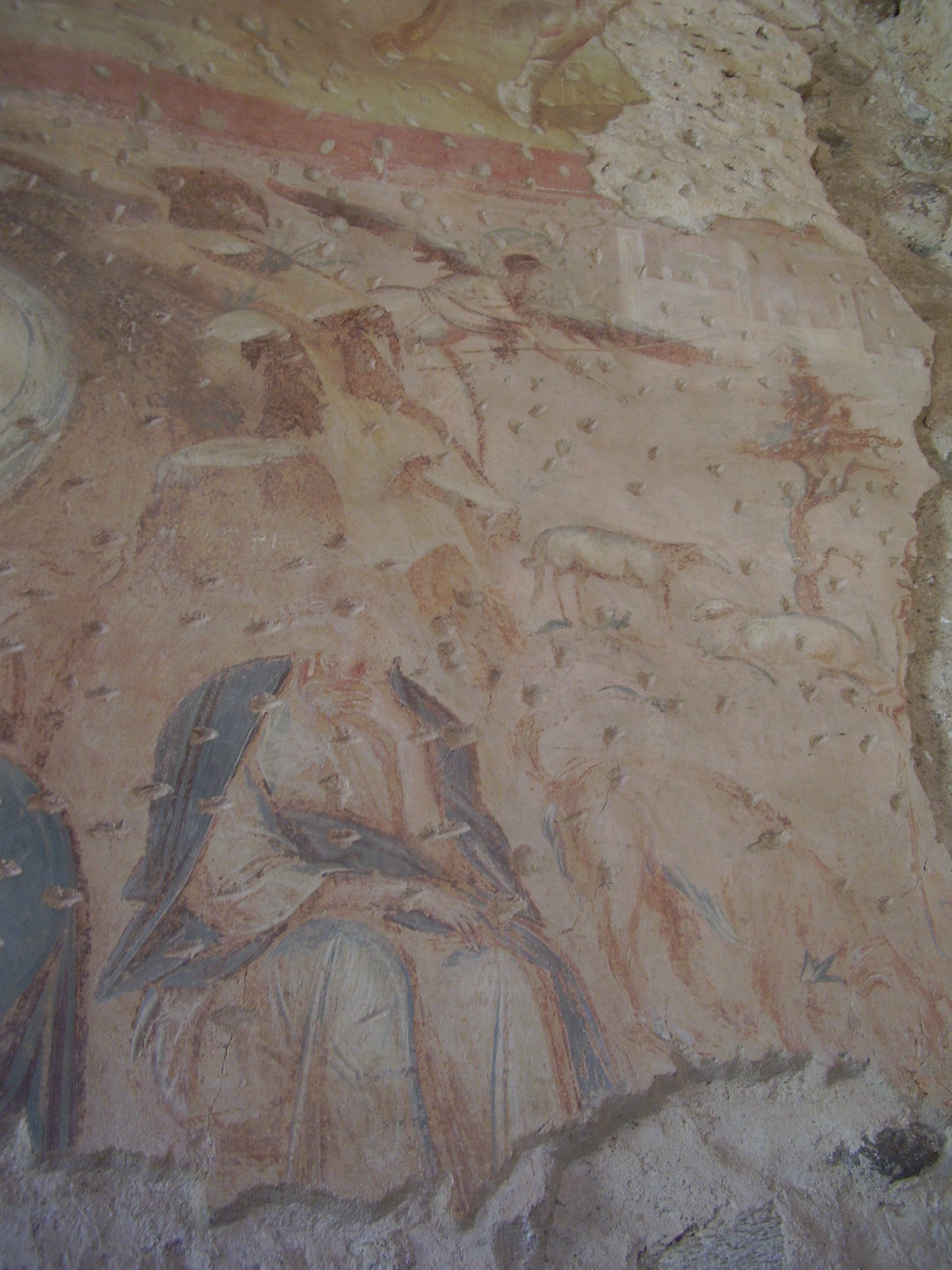 The frescoes in Castelseprio. shepherd